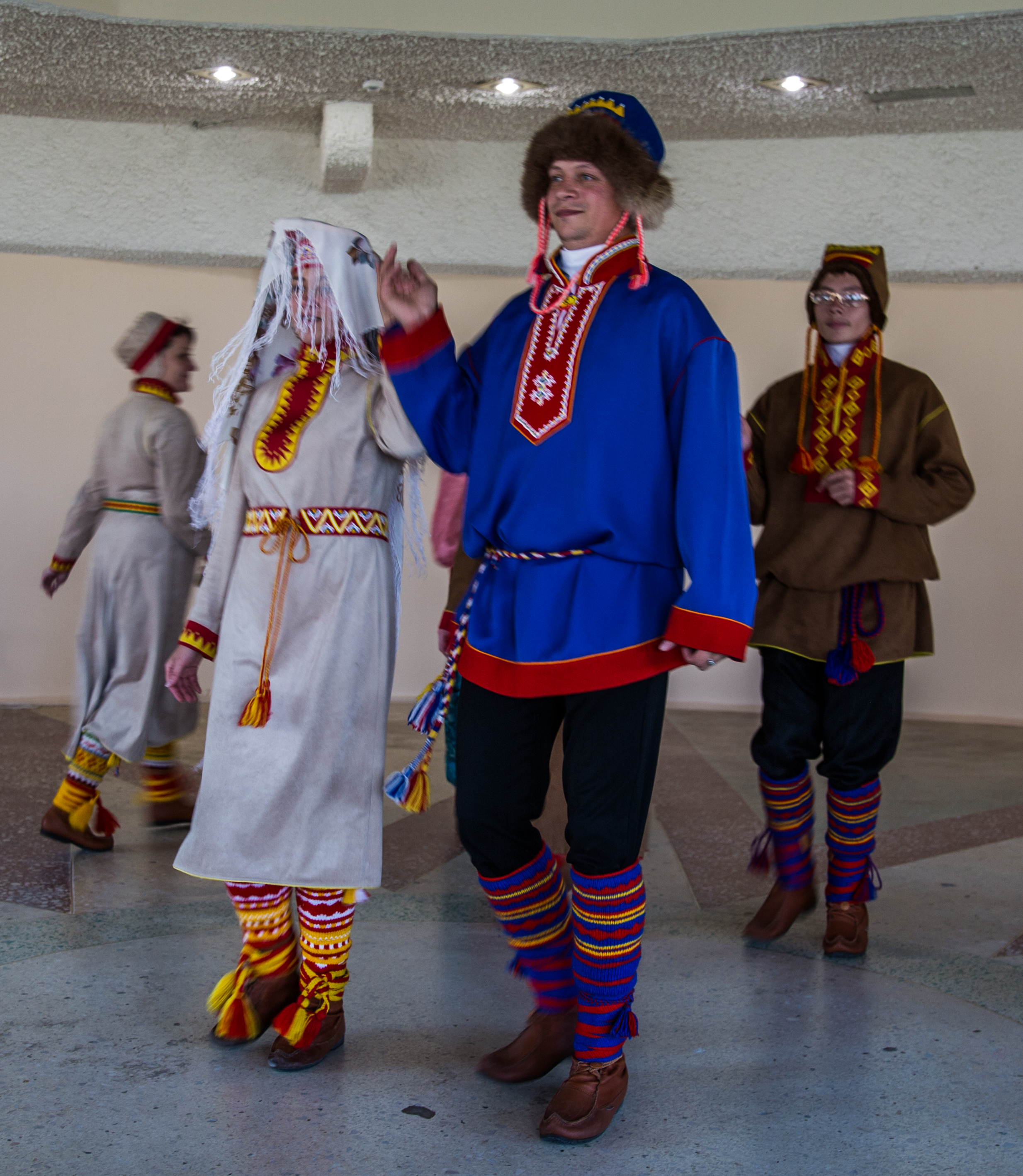 Sámi traditional presentation in Lovozero, Kola Peninsula, Russia